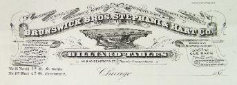 Logo of "Brunswick Bros Stephani Hart"